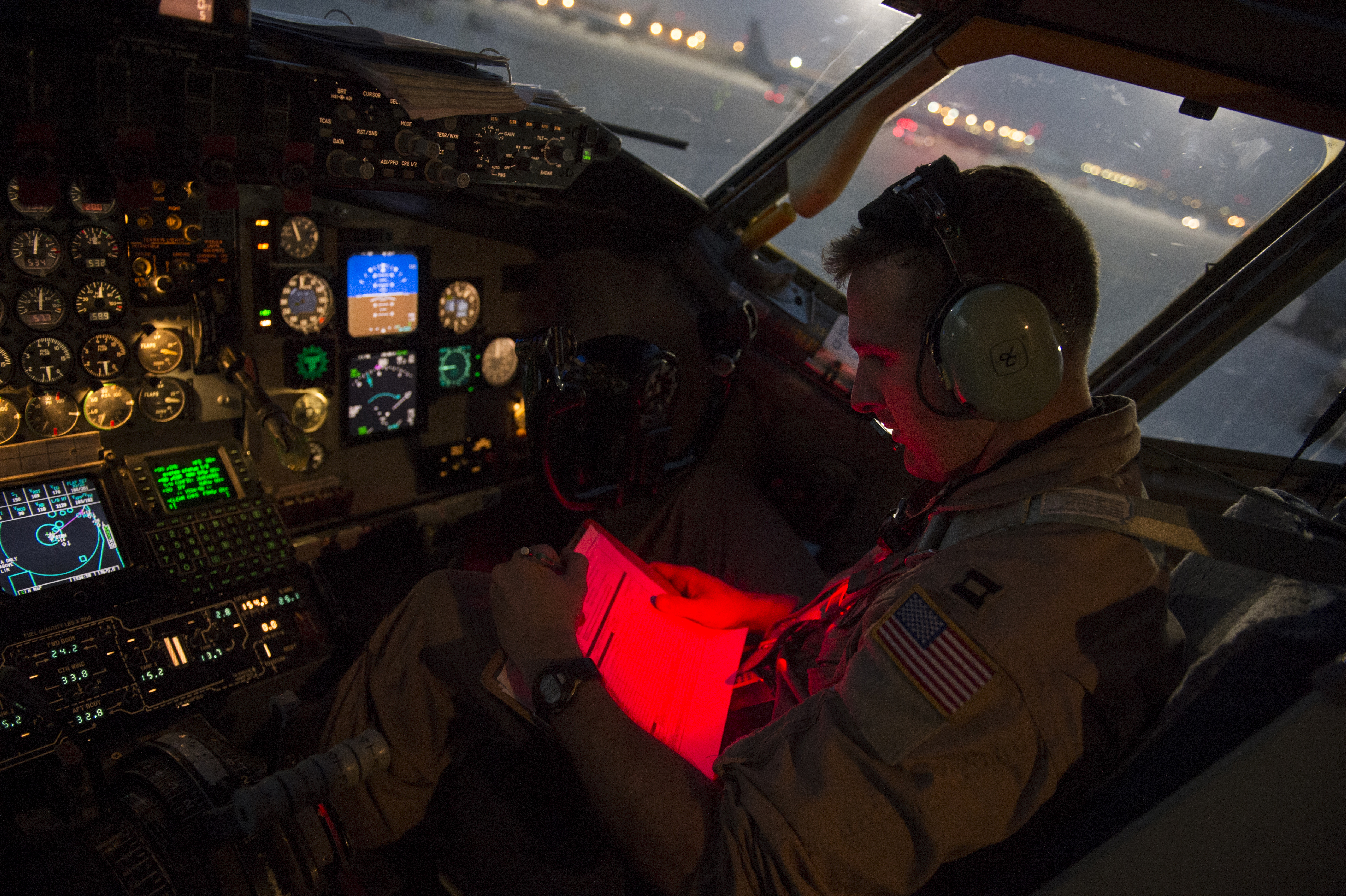 Captain Trent Parker, 340th Expeditionary Air Refueling Squadron, KC-135 Stratotanker pilot, reads a pre-flight checklist prior to an in-air refueling mission over Iraq, Aug. 12, 2014. As the co-pilot for the mission, Parker is responsible for assisting the aircraft commander to complete the mission, takeoffs and landings. The aircrew is scheduled to offload more than 40,000 gallons of fuel to F-16 Fighting Falcons completing missions in Iraq. (U.S. Air Force photo by Staff Sgt. Vernon Young Jr./Released)